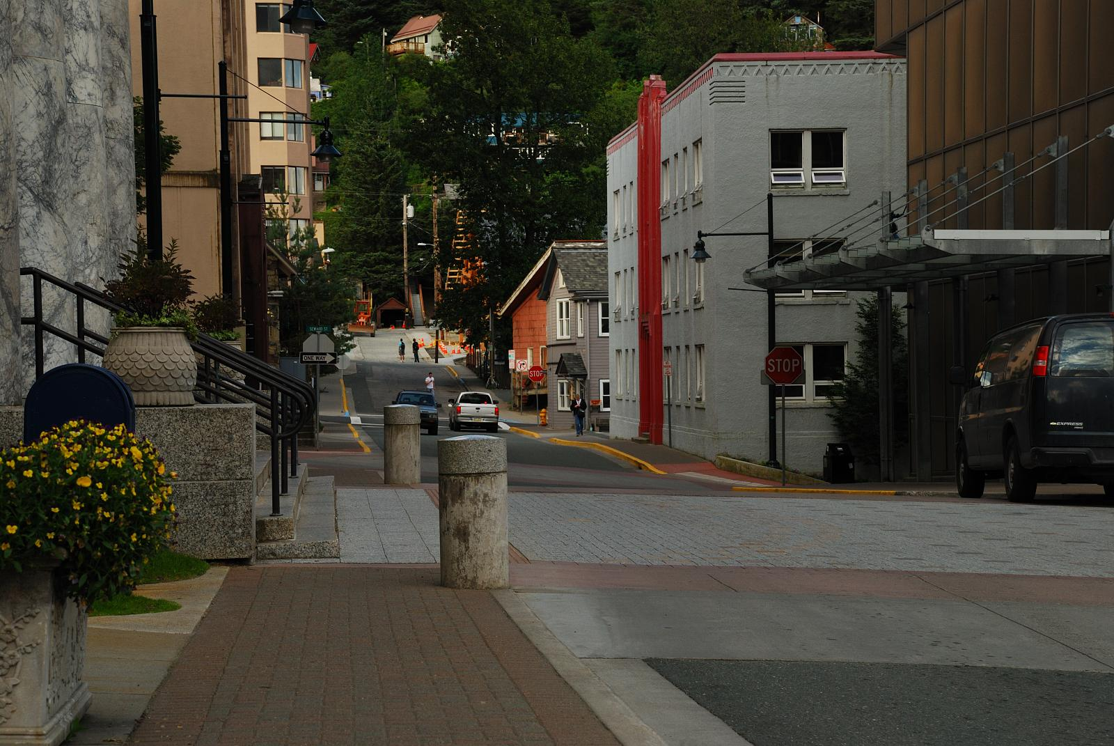 Fourth Street in downtown Juneau, Alaska, USA looking easterly from in front of the Alaska State Capitol.